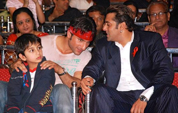 Indian actors Saif Ali Khan and Salman Khan at an event for World Aids Day in 2007